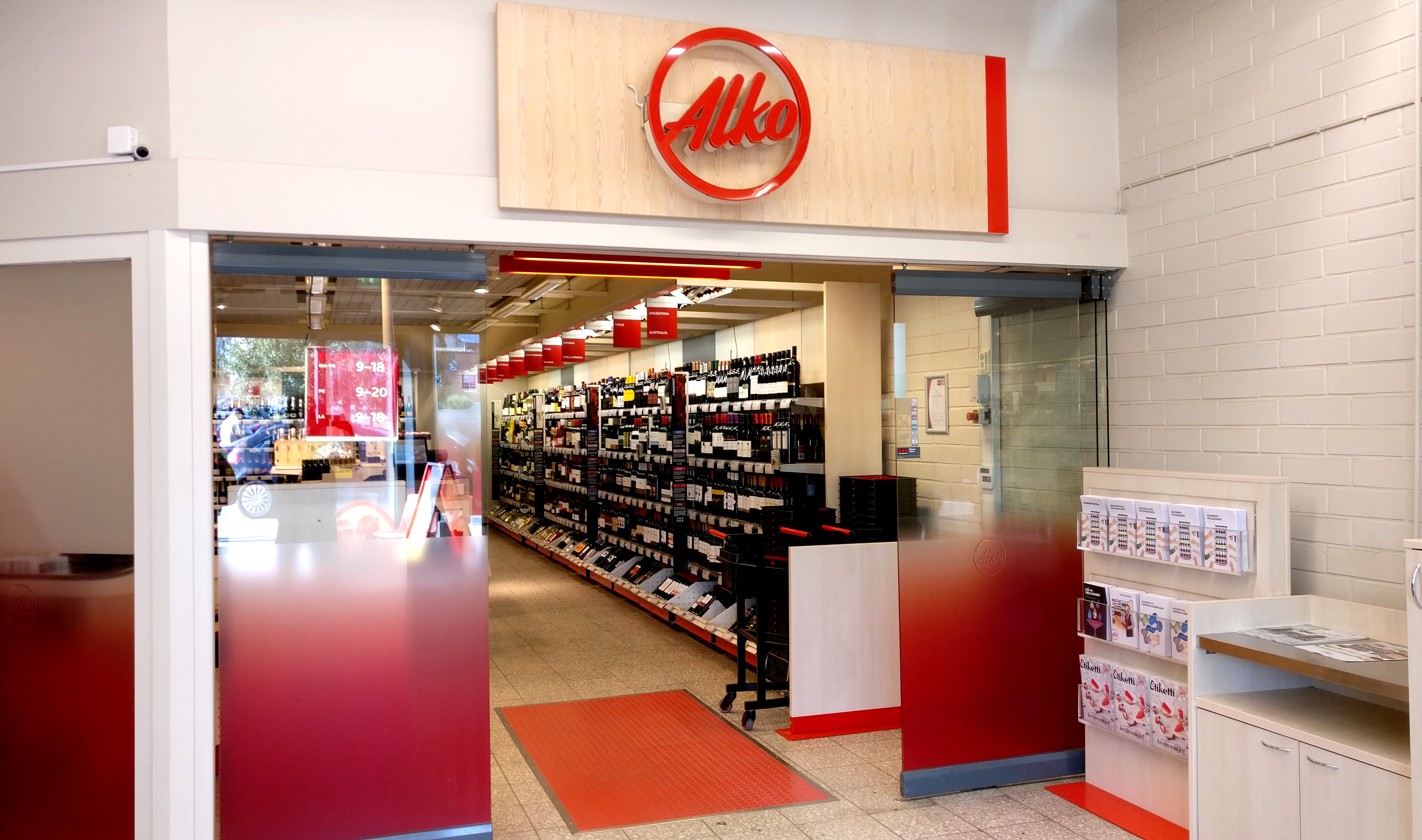 Alko -store in Lappajärvi.